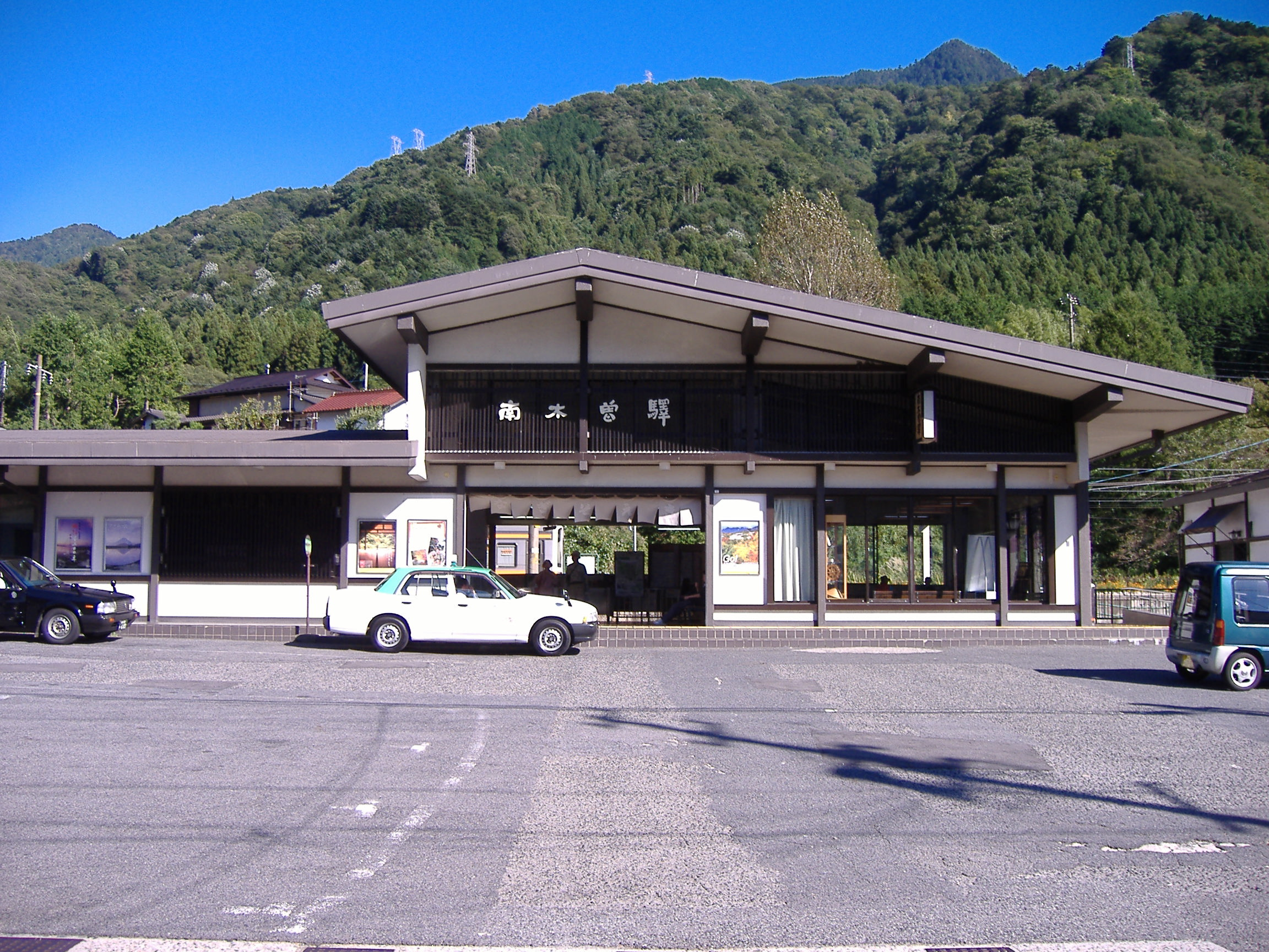 Nagiso Station, Chuo Main Line